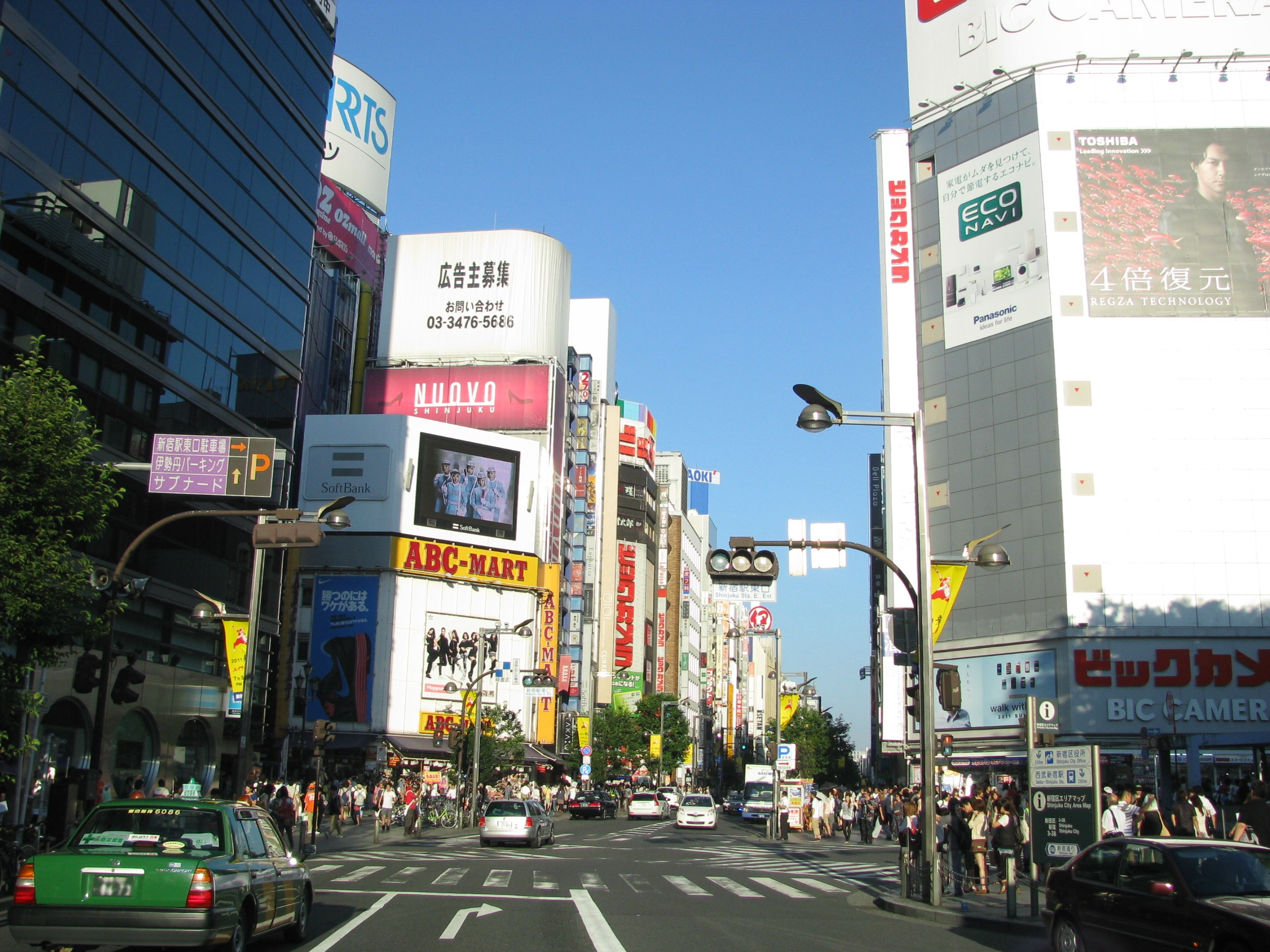 The Tokyo Prefectural Route 430. This location is Shinjuku in Shinjuku-ku, Tokyo, Japan.